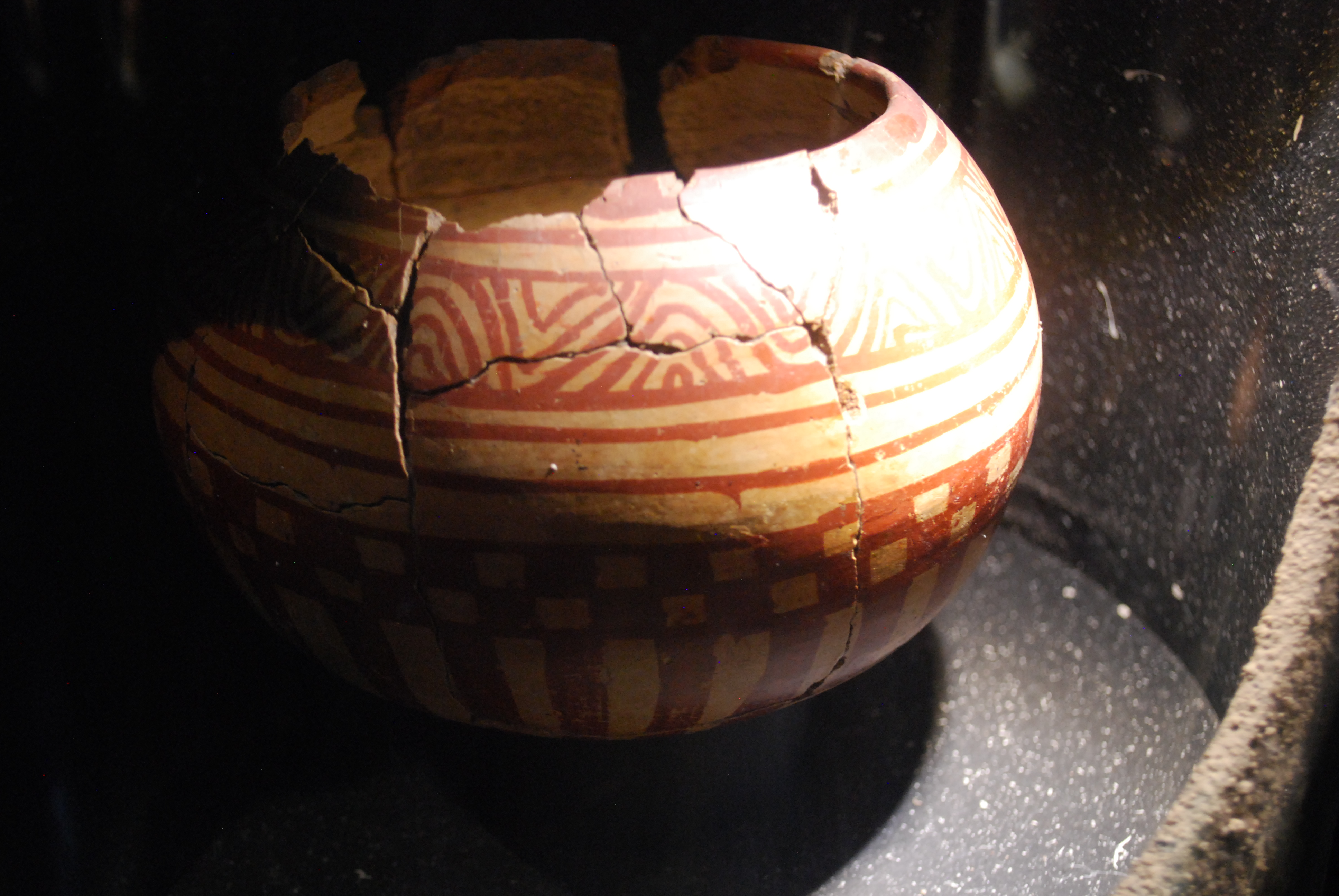 Aztatlan Guasave rojo sobre moreno at the Museo de Arqueología de Durango Ganot-Peschard in Victoria de Durango, Mexico